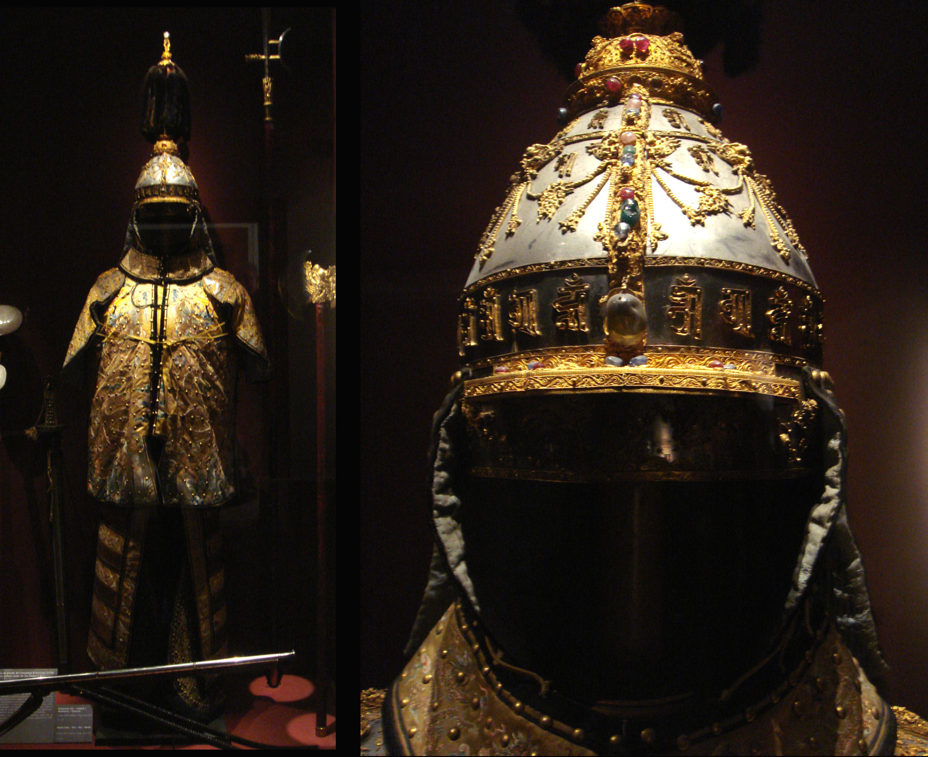 Military Uniform of Emperor Qianlong 1736-1796